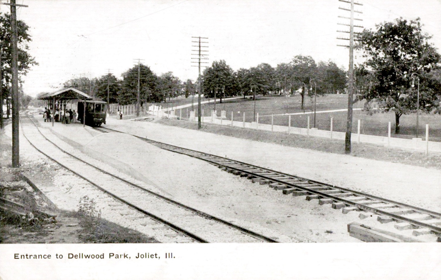 Postcard of a Chicago and Joliet Electric Railway train arriving at Dellwood Park, Lockport, Illinois. Chicago and Joliet Electric Railway The railway built this amusement park to increase ridership on its line in 1905. The park continued until it burnt down in the 1930s; the railway went out of business in 1933.